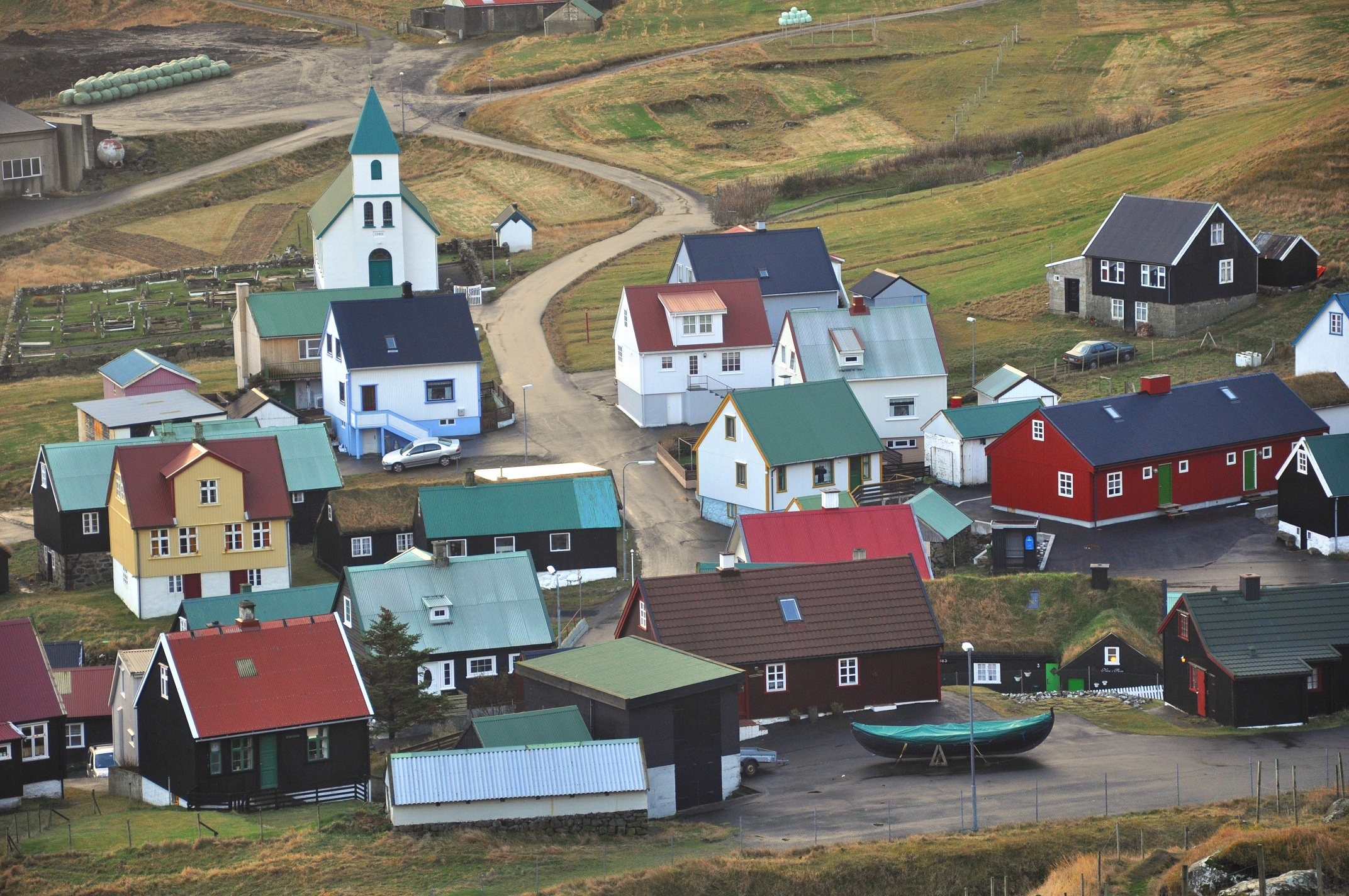 Town centre of Gjógv (Eysturoy, Faroe Islands, Denmark).